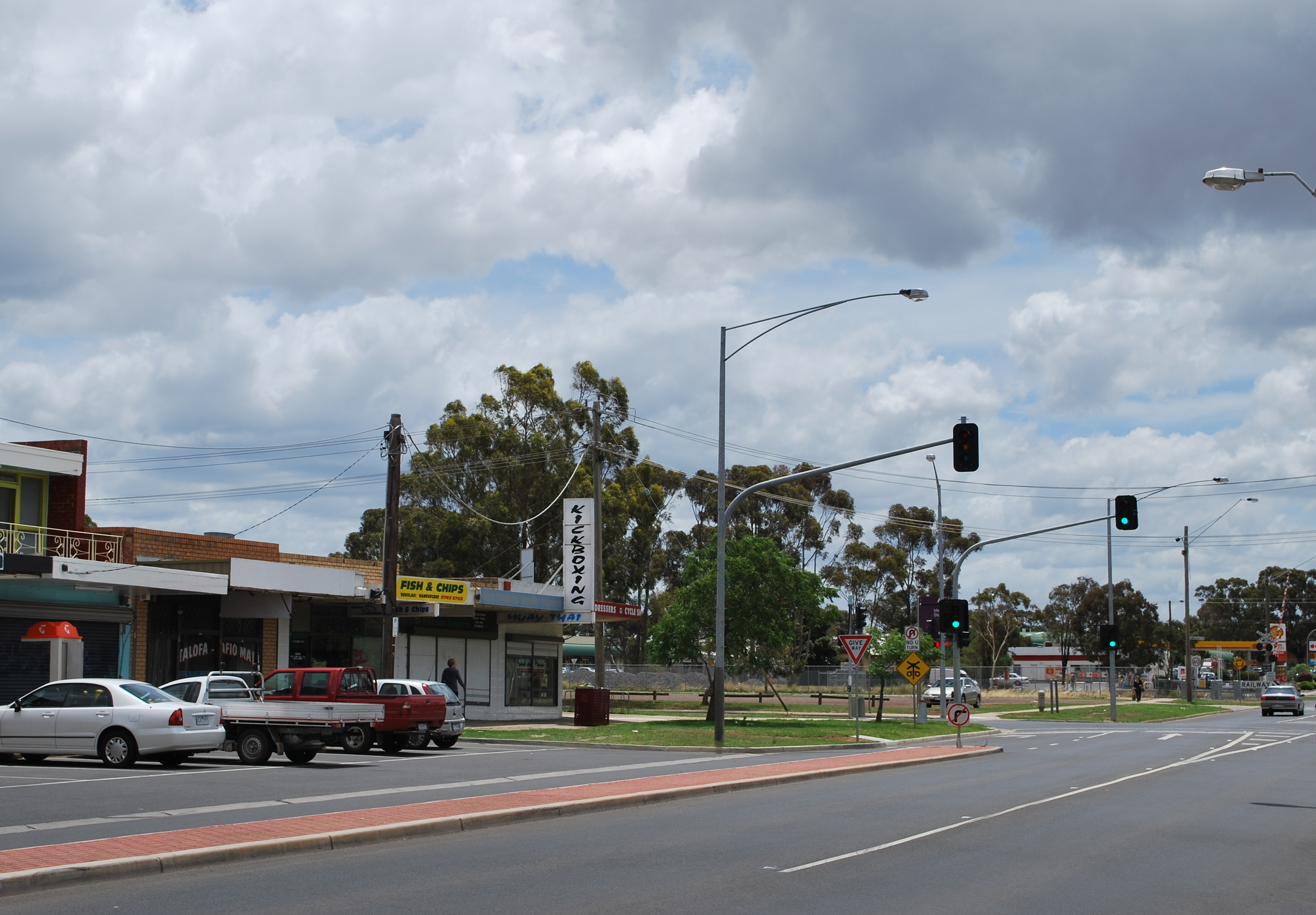 Shops at Melton South, Victoria